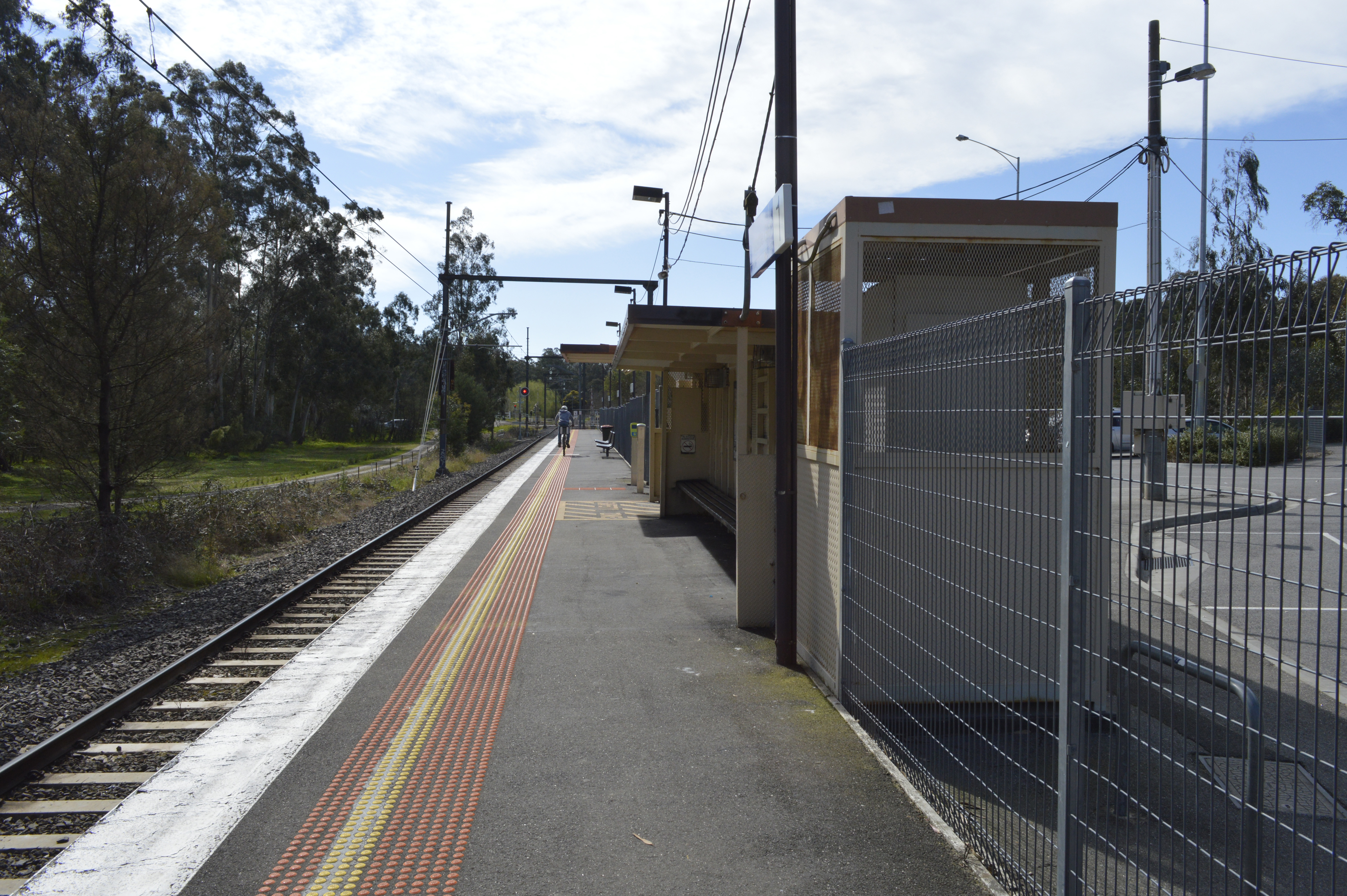 Looking in the down direction